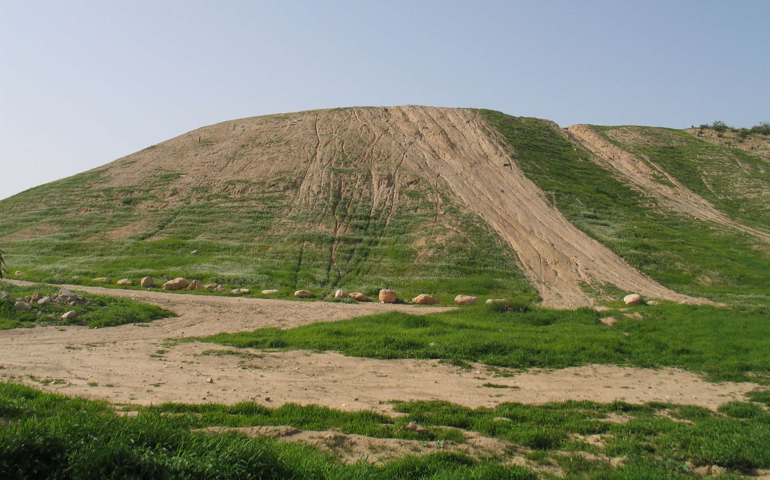 Tel Gamma, near kibutz Reim, Israel.